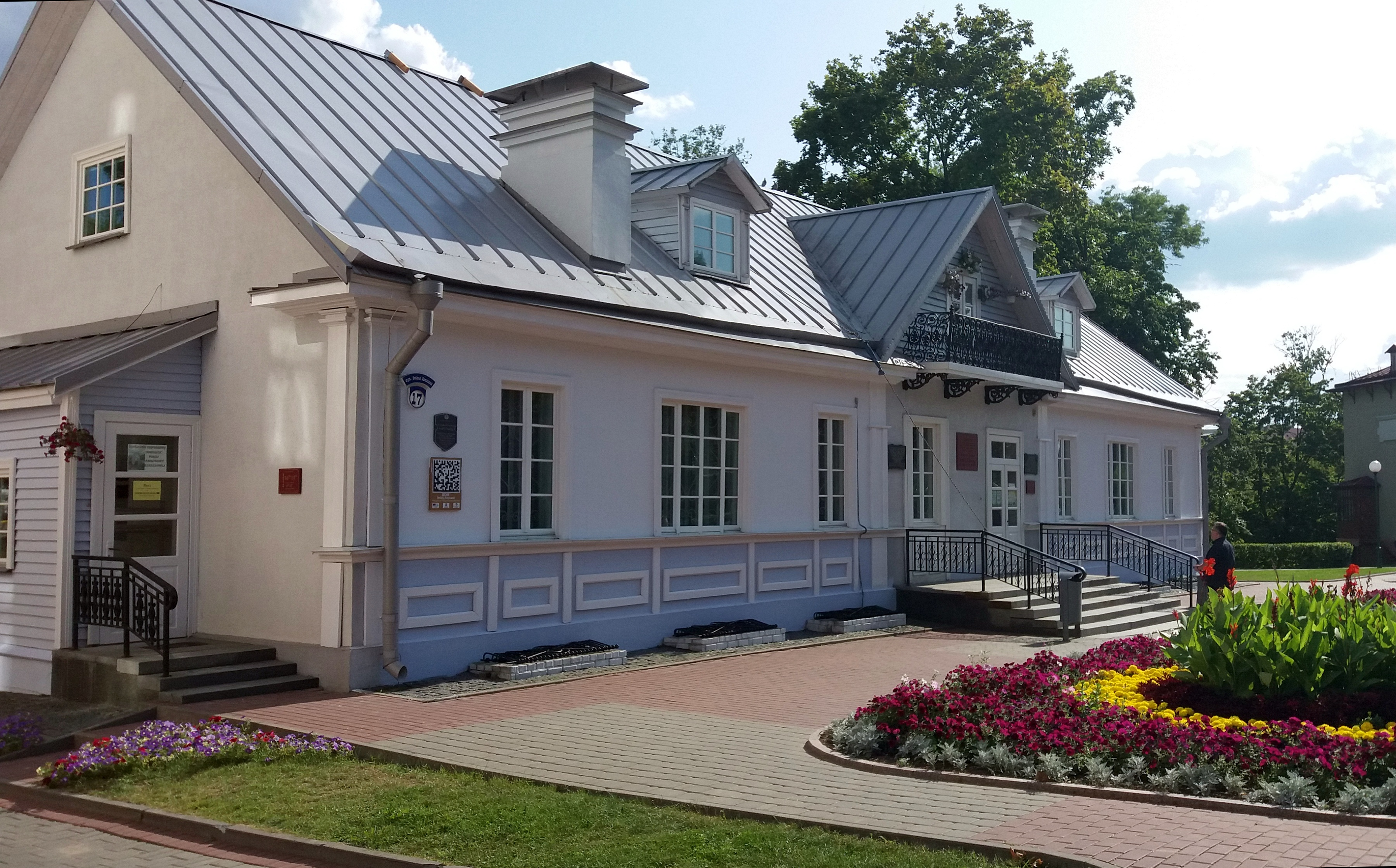 House of Eliza Ažeška (Hrodna), nowadays a museum